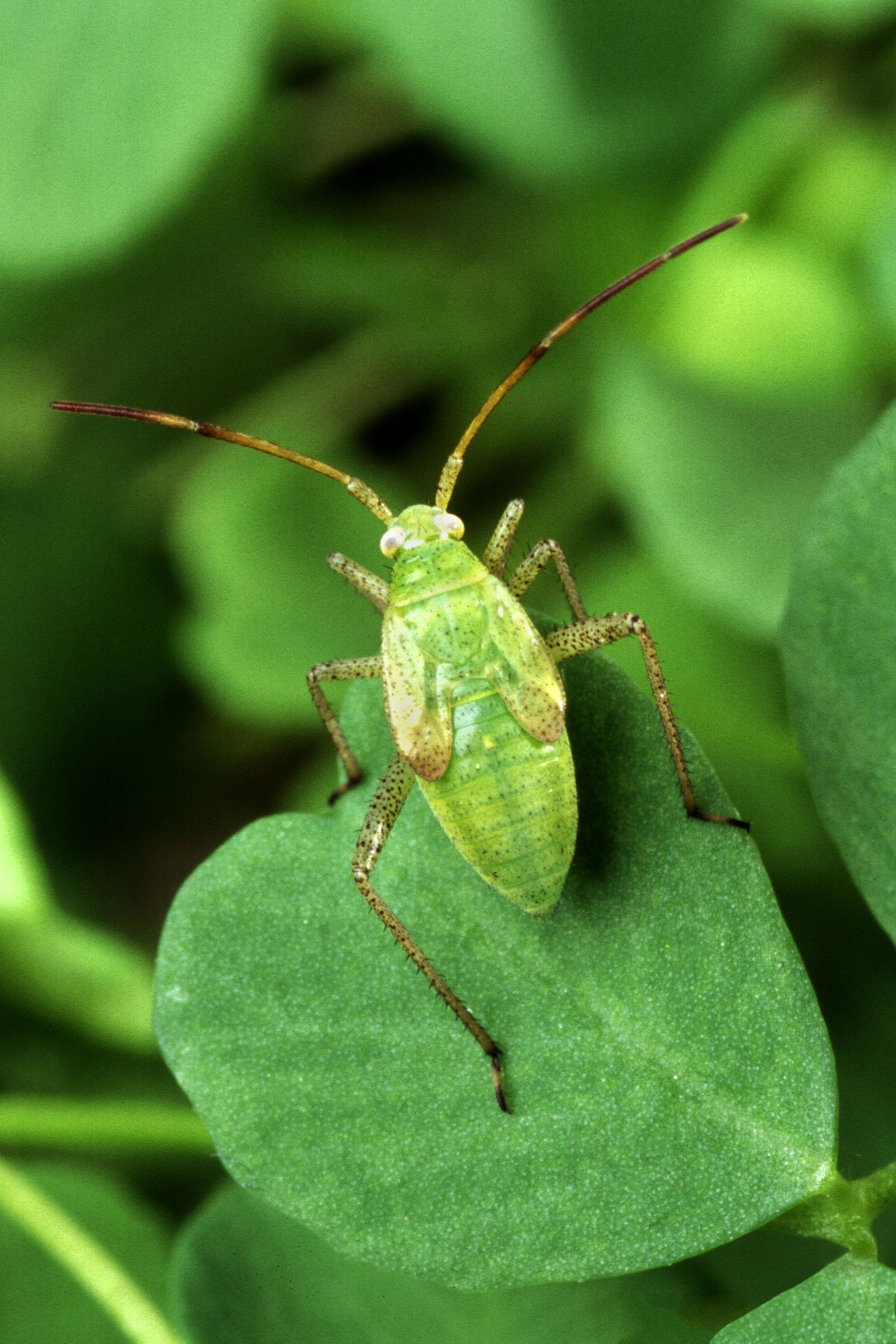 Adelphocoris lineolatus Goeze Common Name: alfalfa plant bug Photographer: Scott Bauer, USDA Agricultural Research Service, United States Contact: USDA ARS Photo Unit, USDA Agricultural Research Service Descriptor: Adult(s) Description: a non-native plant pest Image taken in: United States